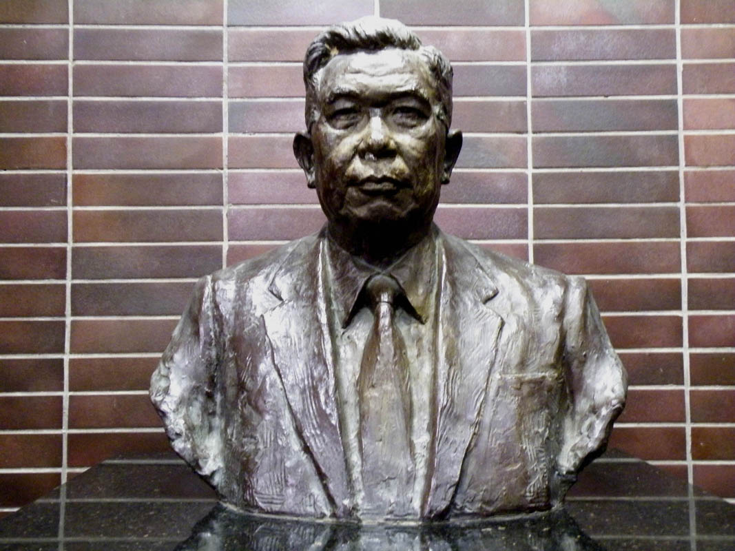 Bronze statue of Haking Wong, at Haking Wong Building, The University of Hong Kong.